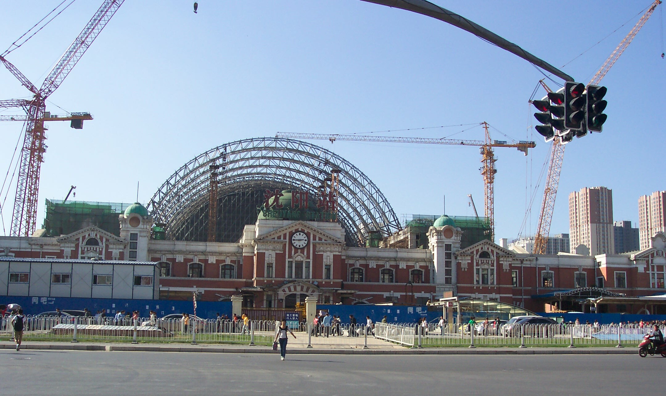 Old Shenyang Railway Station, built by the Japanese